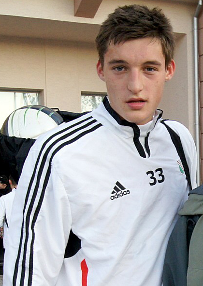 Michał Żyro, player of Legia Warsaw